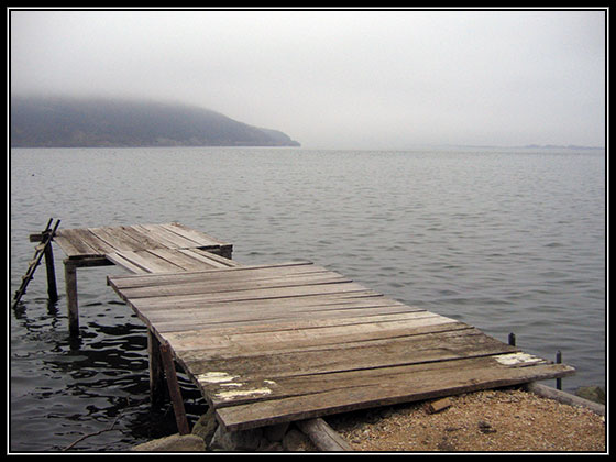 the Danube at Baziaș (Базјаш), Caraș-Severin County, Romania